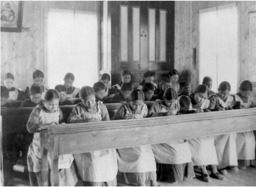 R.C. Indian Residential School Study Time, Fort Resolution, N.W.T.